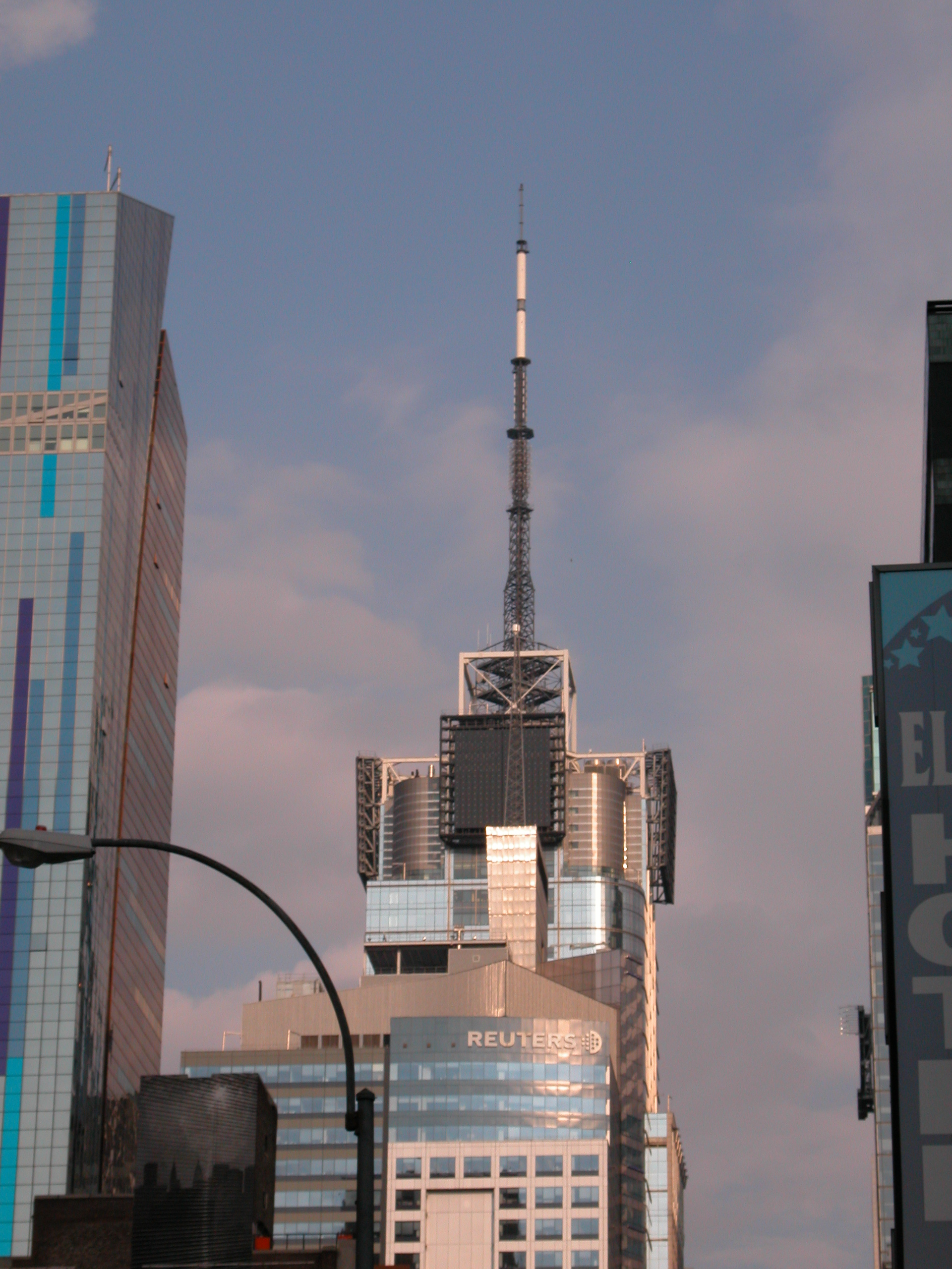 Conde Nast building. More here.